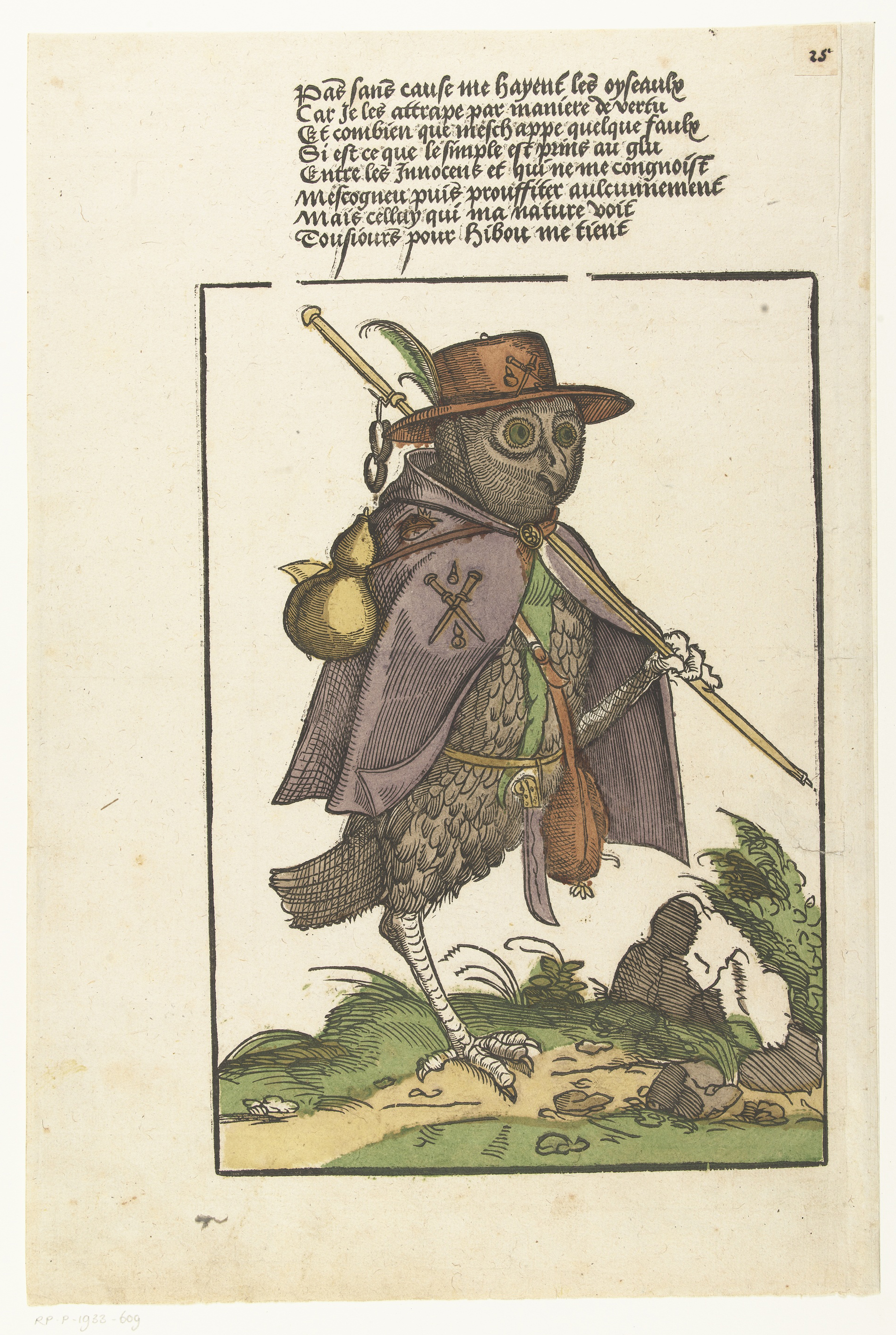 An owl dressed as a pilgrim with hat and flask, standing on one foot, holding a staff in the other foot.